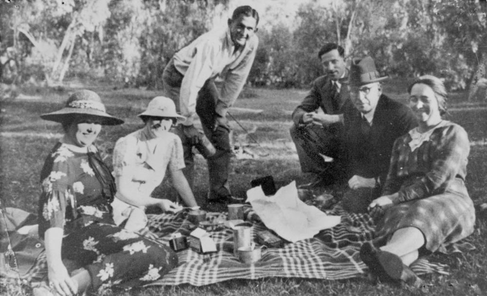 Members of the Royal Flying Doctor Service and friends picnicing at Cloncurry, 1937 Dr. Jean White, flying doctor at Normanton; Mrs Simpson, Dr. Simpson's (photographer) wife; Rev. Fred McKay, A.I.M. Patrol Padre; Dr. Gordon Albury, flying doctor at Cloncurry; Rev. John Flynn, founder and A.I.M. superintendent; Mrs. Jean Flynn, his wife and former secretary. (Description supplied with photograph). Picnicking on a tartan travel rug at Cloncurry in 1937.